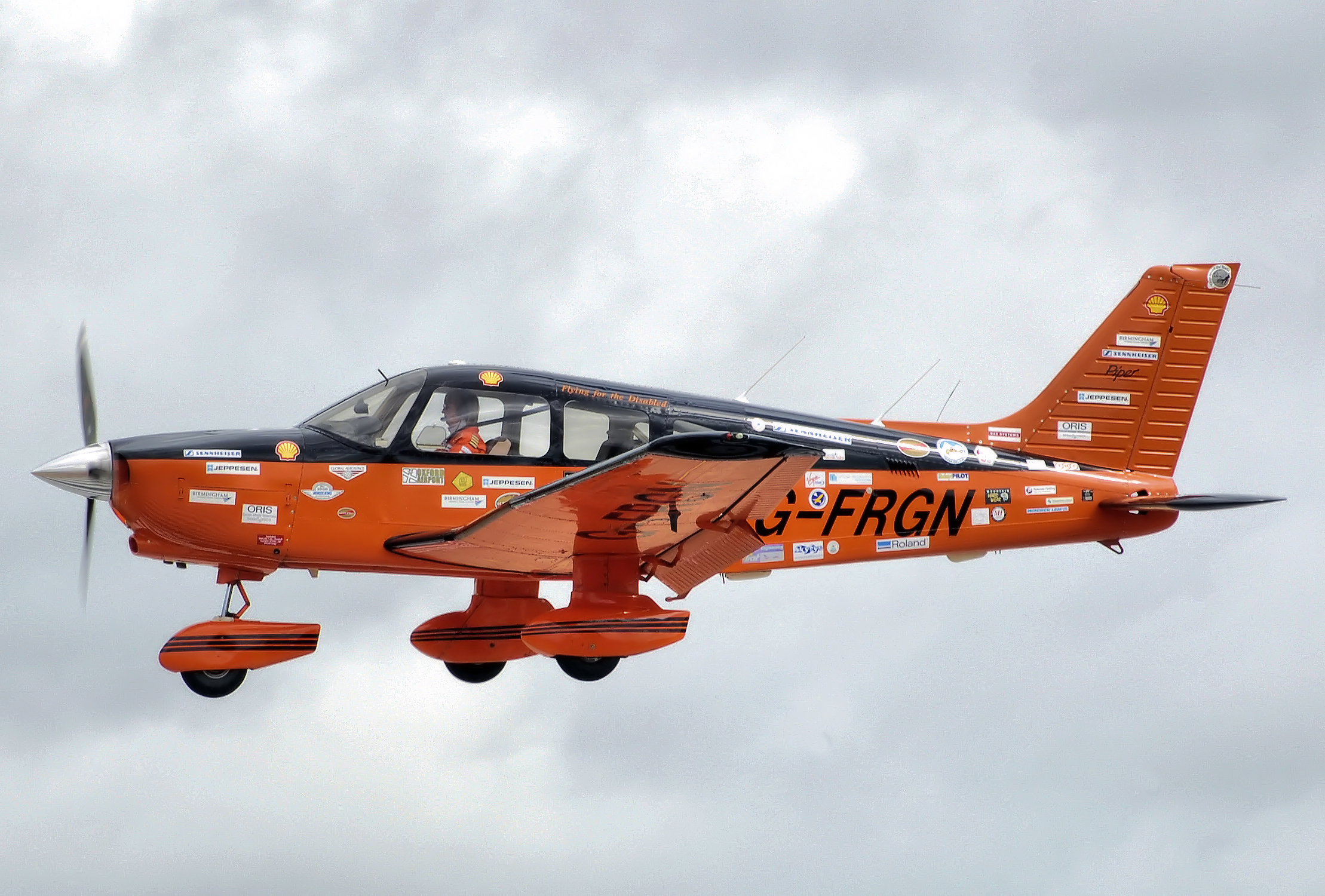 Polly Vacher arrives at RIAT 2008 in her Piper PA-28-236 Dakota (G-FRGN).